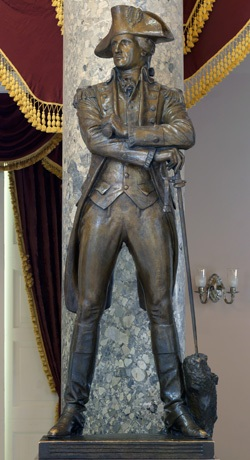 Statue of Tennessee governor and frontiersman John Sevier (1745–1815) at the National Statuary Hall Collection